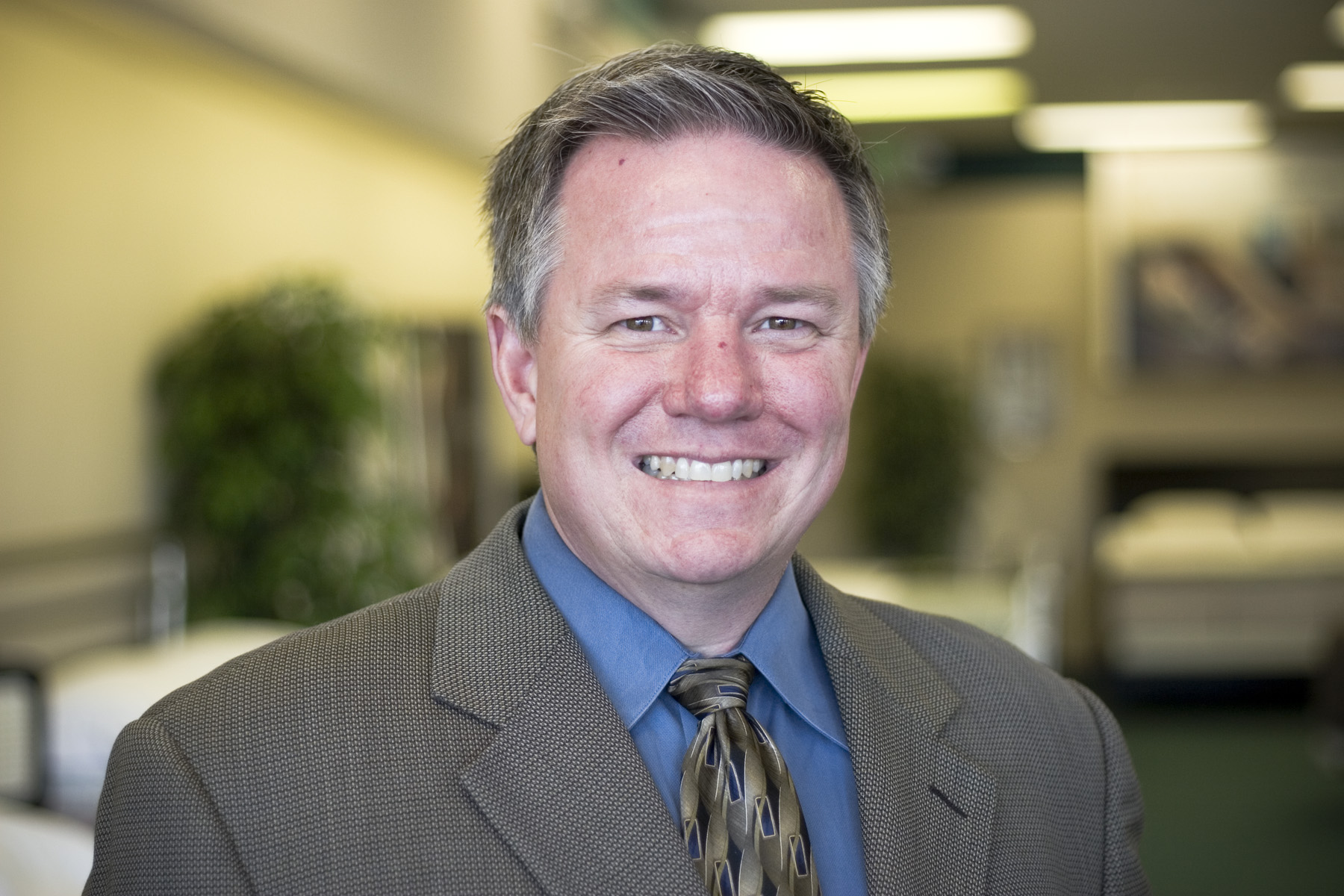 Dale Carlsen, CEO of Sleep Train Mattress Centers